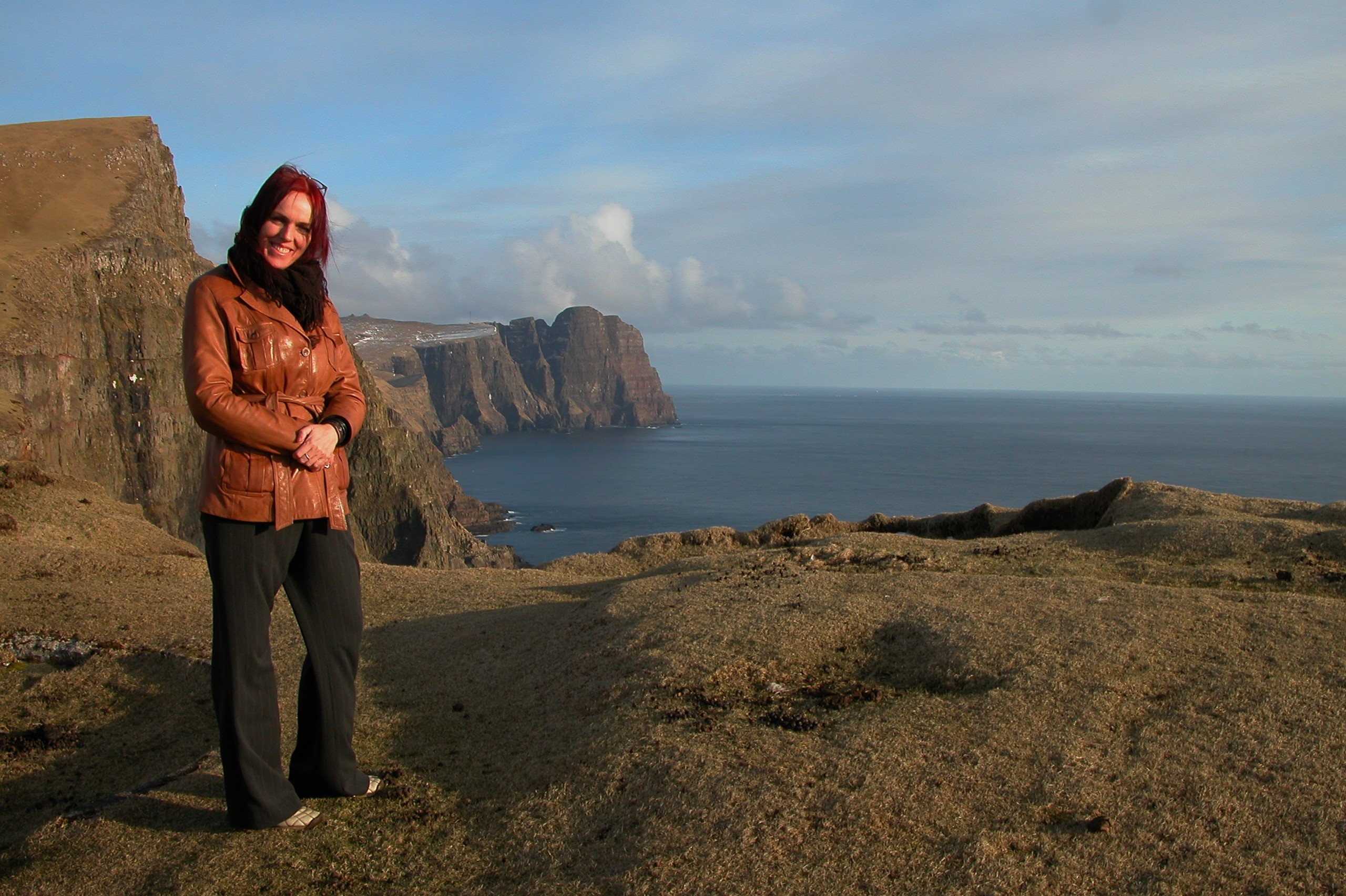 Skúvanes - Suðuroy - Faroe Islands. Person on pic: Elin Brimheim Heinesen